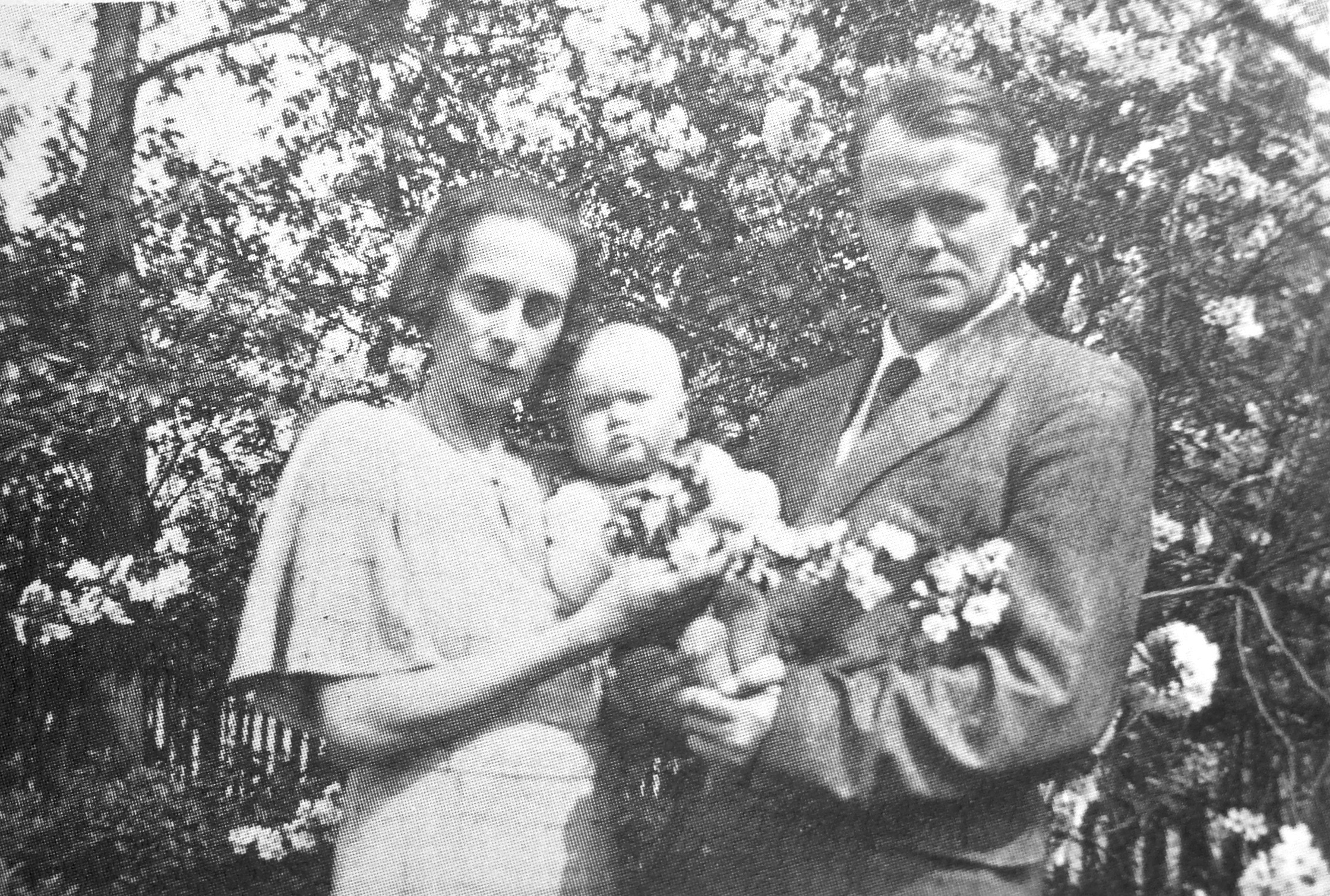 The German Bauhaus designer and lecturer Erich Dieckmann (1896–1944) with his wife Katharina, nee Ludewig